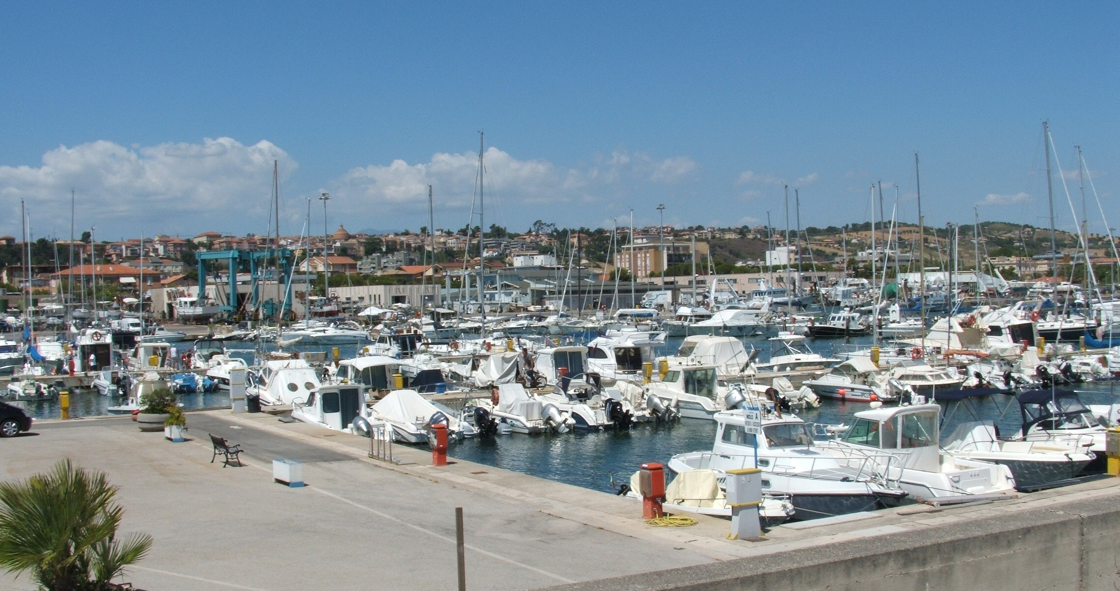 Giulianova (TE), Italy - View of port